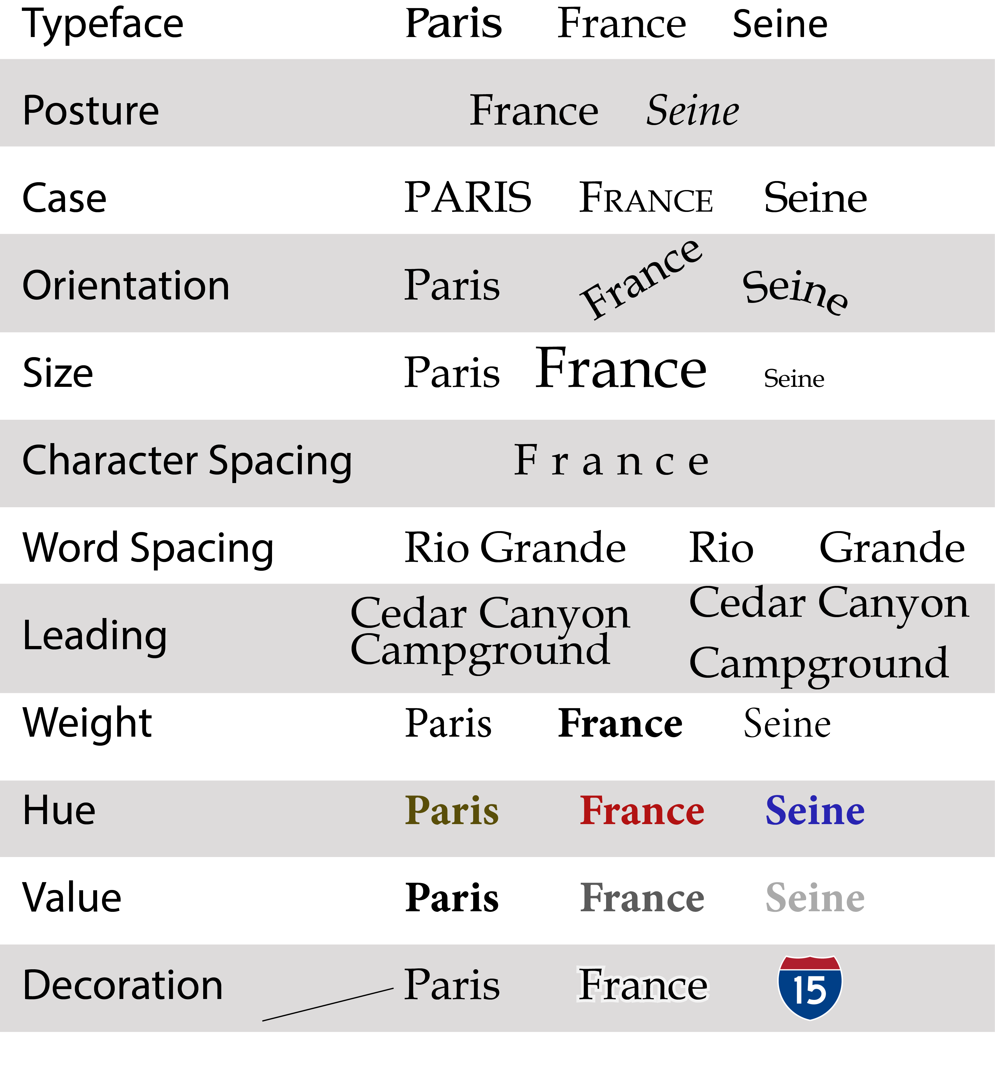 A list of typographic style variables that are commonly used in maps, with examples